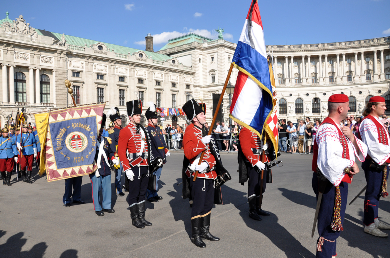 Otto von Habsburg funeral procession